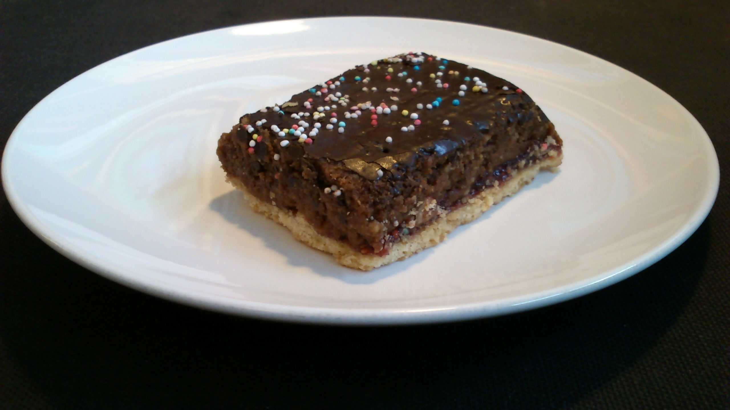 Studenterbrød